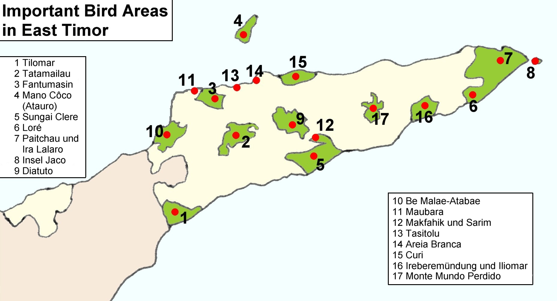 Important Bird Areas in Timor-Leste